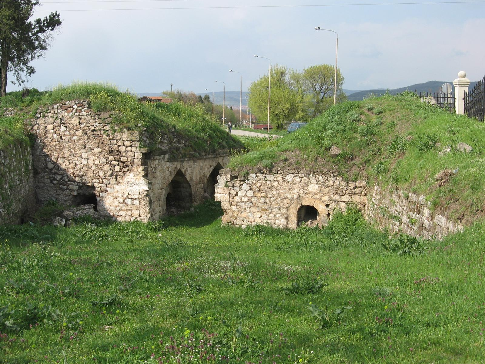 Remains of old (ottoman) gate in north wall of Niš fortress, Serbia.